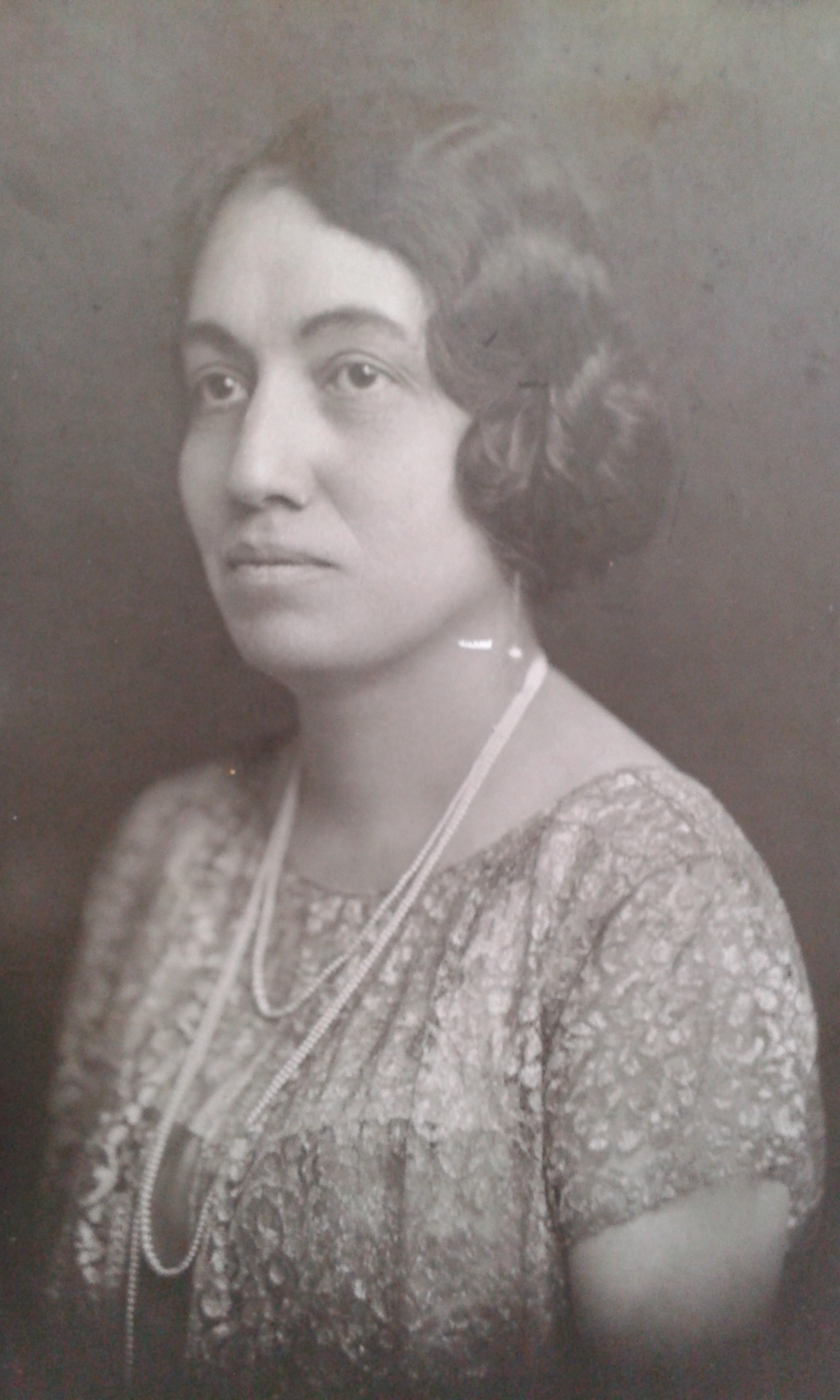 Charlotte Sarah Rushall (née Trype), second wife of former mayor of Rangoon Richard Rushall